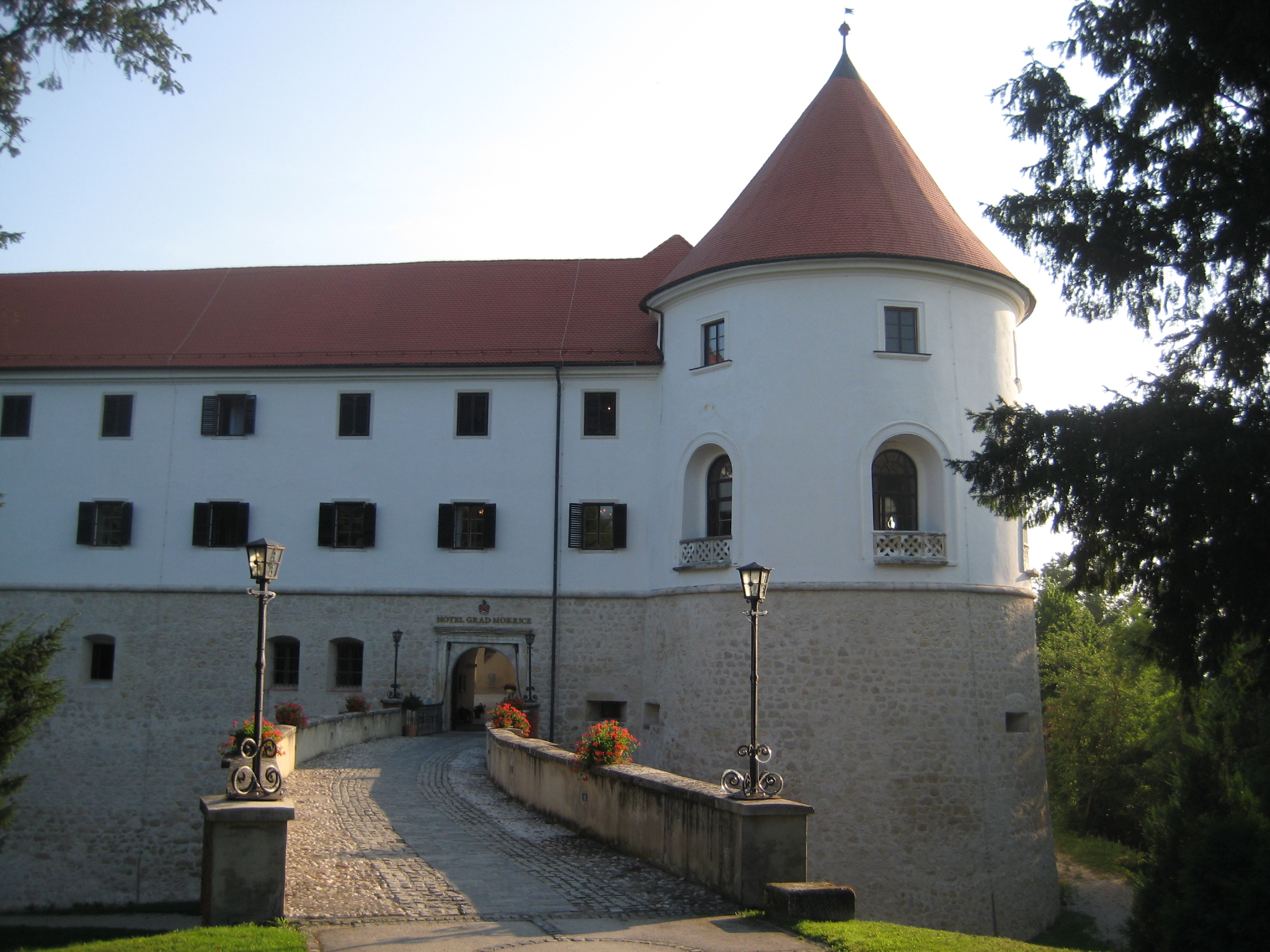 Mokrice castle, Slovenia